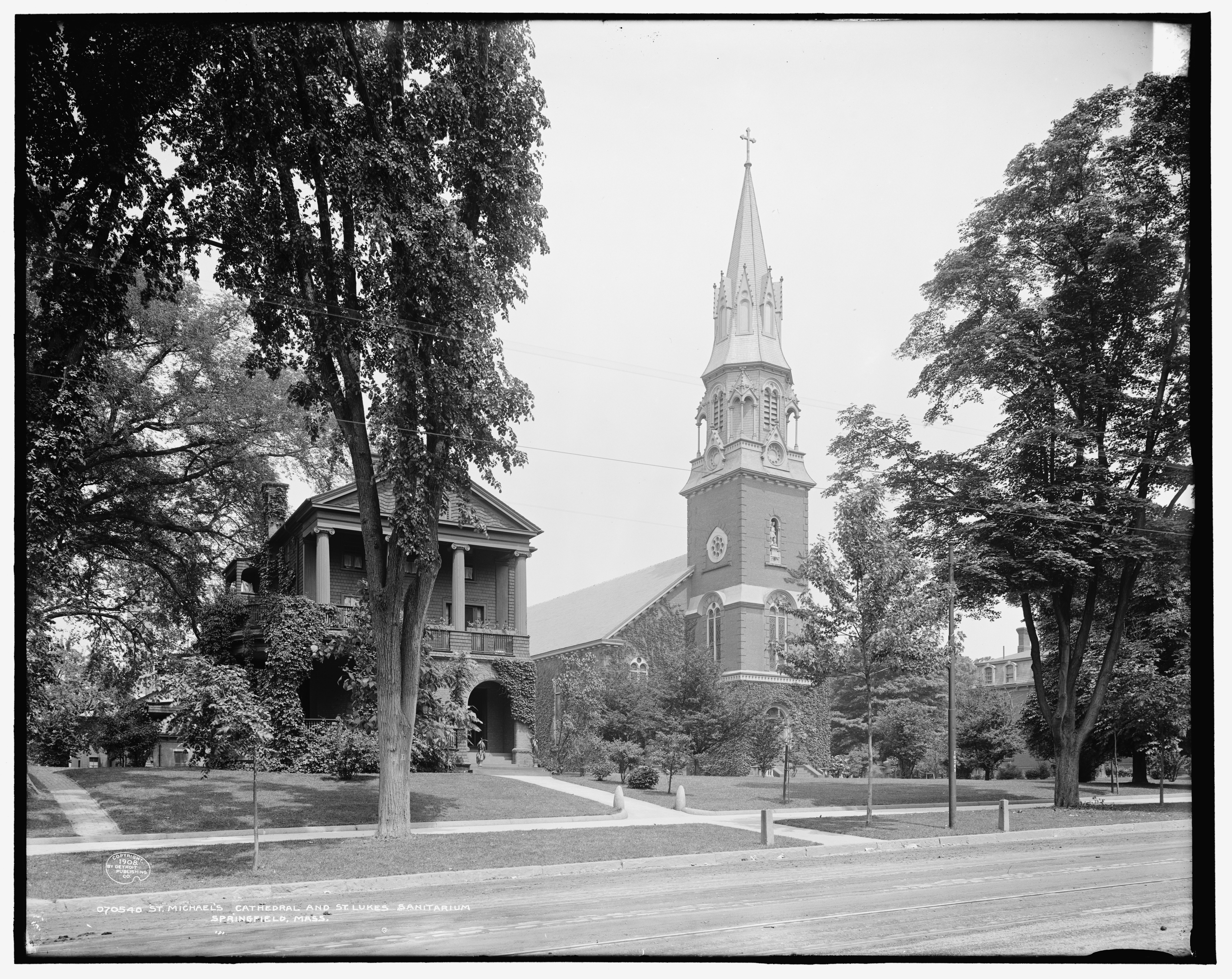 St. Michael's Cathedral (right) and St. Luke's Sanitarium (left), Springfield Massachusetts, around 1908